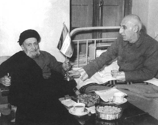 Dr. Mohammad Mosaddegh and Ayat. Abolghasem Kashani